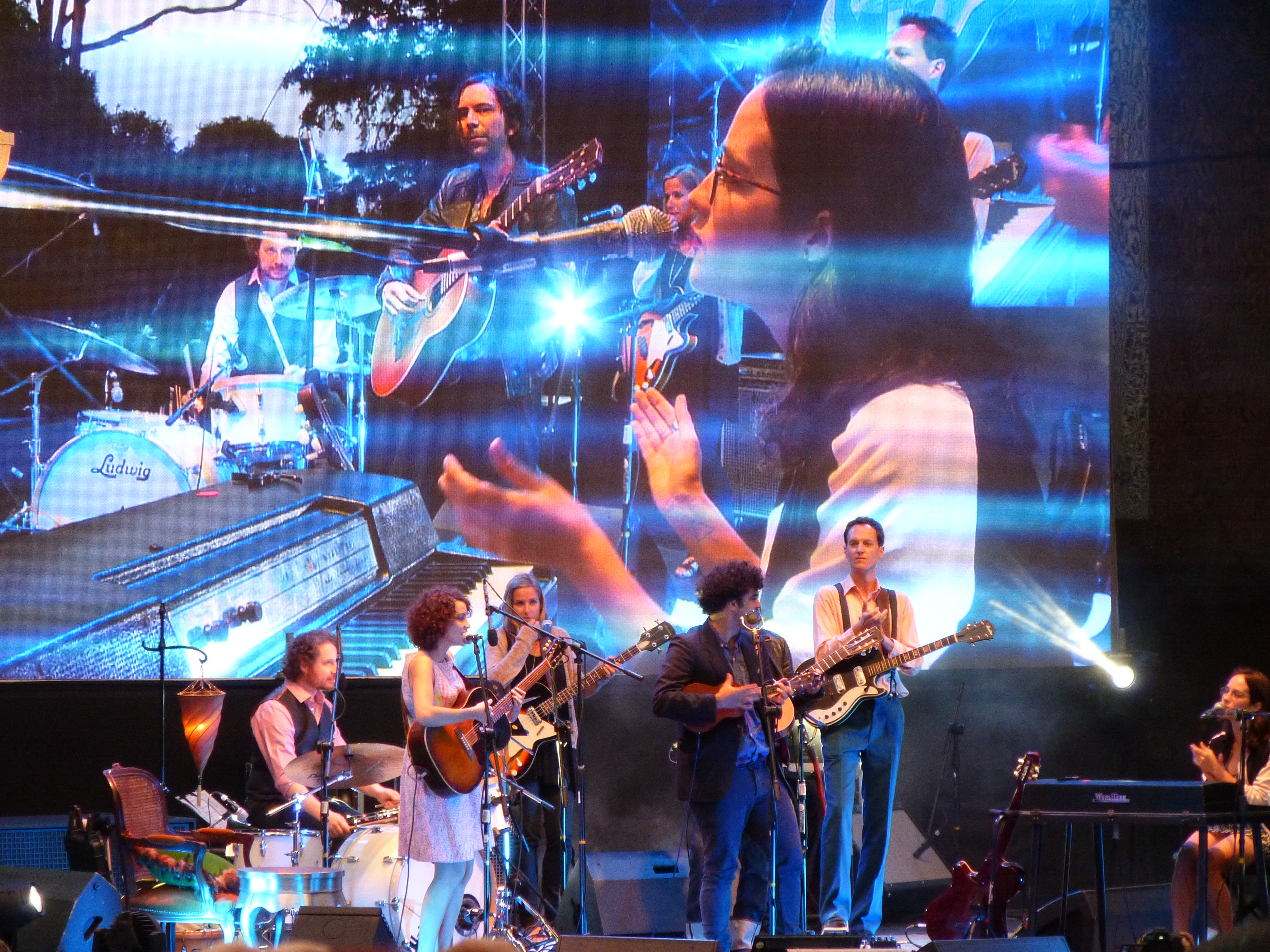 Gaby Moreno & friends during a concert in Guatemala March 1, 2015